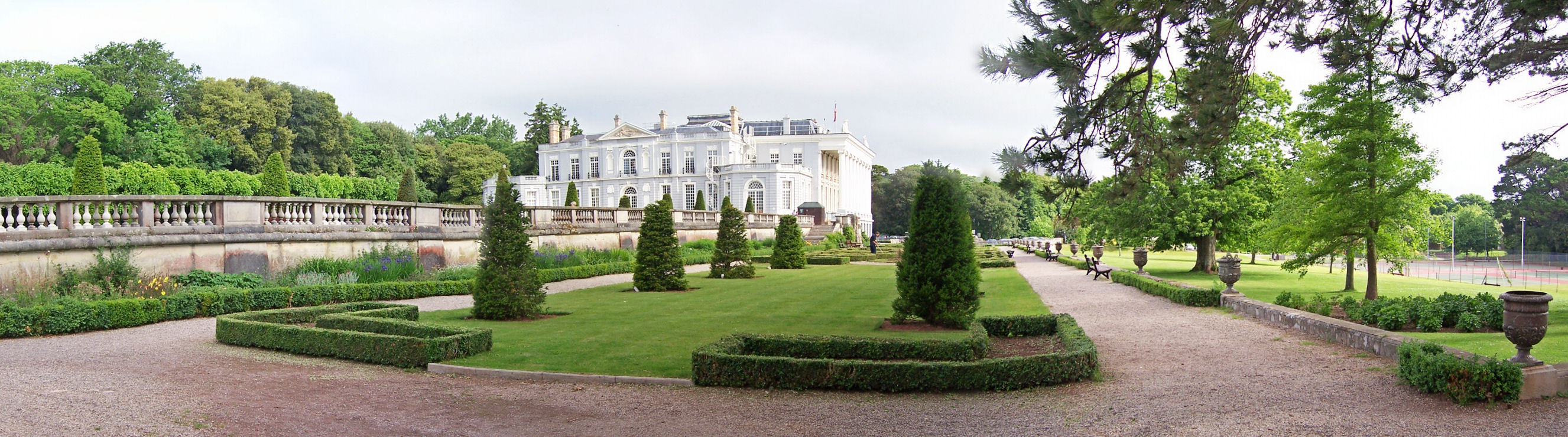 The Parterre Garden at Oldway Mansion in Paignton, Devon, England.. The Oldway gardens are set in 17 acres (69,000 m2) of gardens, which are laid out in the Italian garden theme by the French landscape gardener Achille Duchesne.